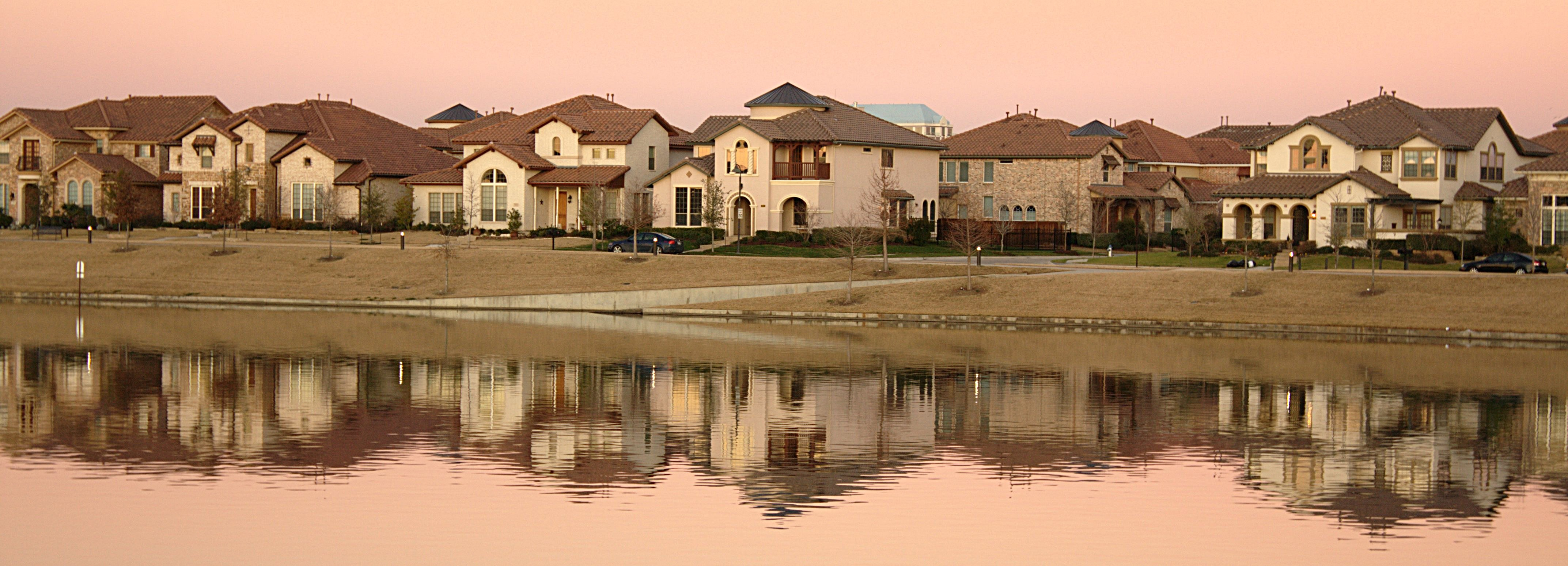 Some houses on Camino Lago in Las Colinas, Irving, TX